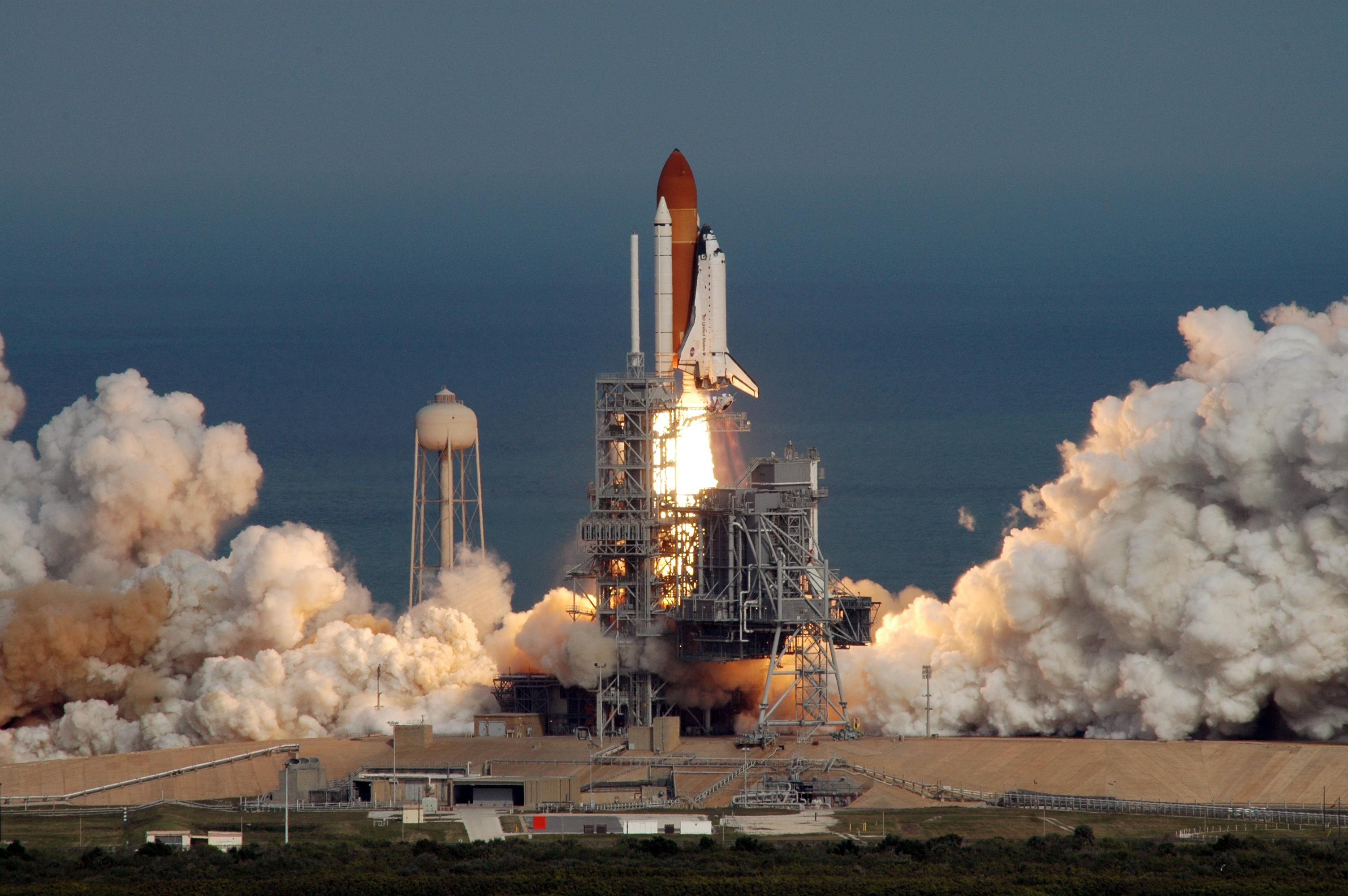 KENNEDY SPACE CENTER, FLA. -- Against a backdrop of blue Atlantic Ocean, Space shuttle Atlantis with its crew of seven rises majestically from Launch Pad 39A at NASA's Kennedy Space Center to start the STS-122 mission to the International Space Station. Liftoff was on time at 2:45 p.m. EST. The launch is the third attempt for Atlantis since December 2007 to carry the European Space Agency's Columbus laboratory to the International Space Station. During the 11-day mission, the crew's prime objective is to attach the laboratory to the Harmony module, adding to the station's size and capabilities. Photo credit: NASA/Jim Grossmann